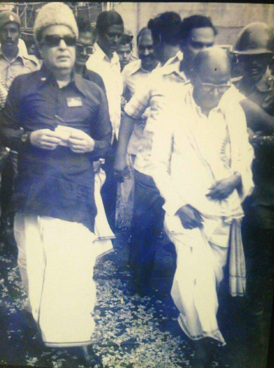 புதுக்கோட்டை முத்தரையர் மாநாட்டில் முதல்வர் எம்.ஜிஆர் உடன் சங்க மாநிலதலைவர் வெங்கடசாமி நாயுடு